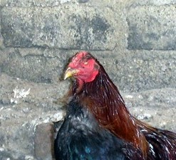 A rooster with a loss of one eye, due to an agressive fight.